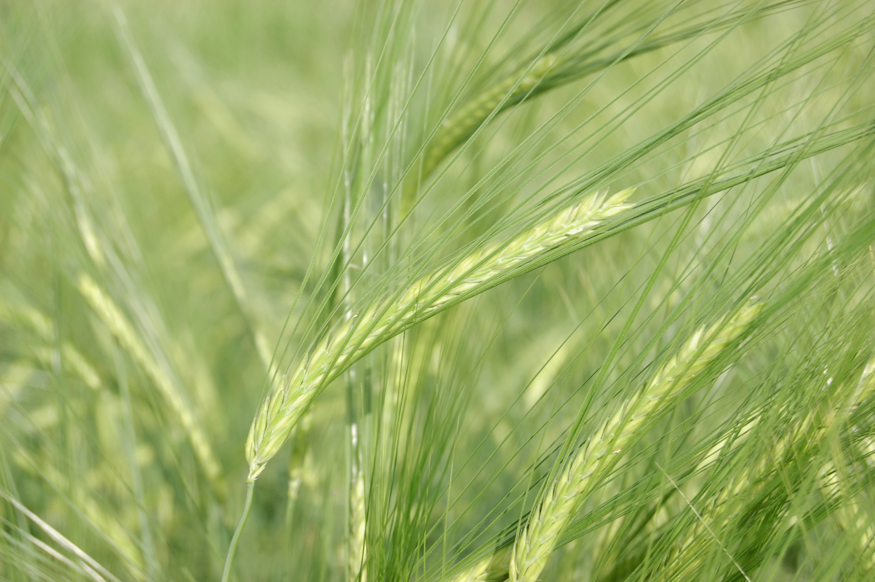 Field of wheat, Podsmreka pri Višnji Gori, Slovenia